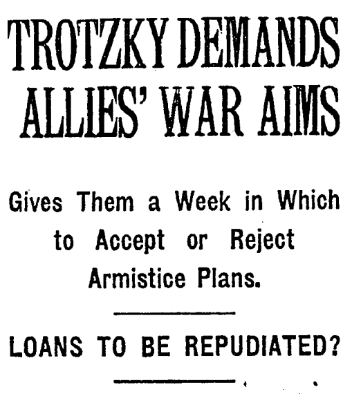 LONDON, Dec. 8.--A Russian Government dispatch, sated Thursday and received here by wireless, announces that Leon Trotzky, the Bolshevist Foreign Minister, has sent to all the allied embassies and legations in Petrograd